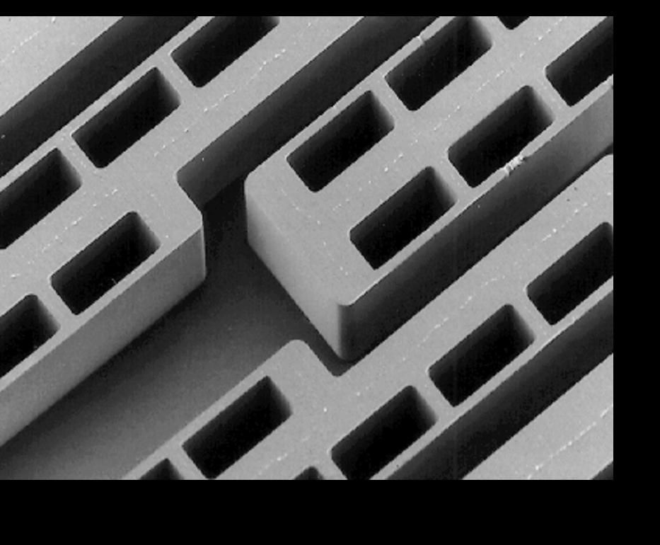 Microstructure.